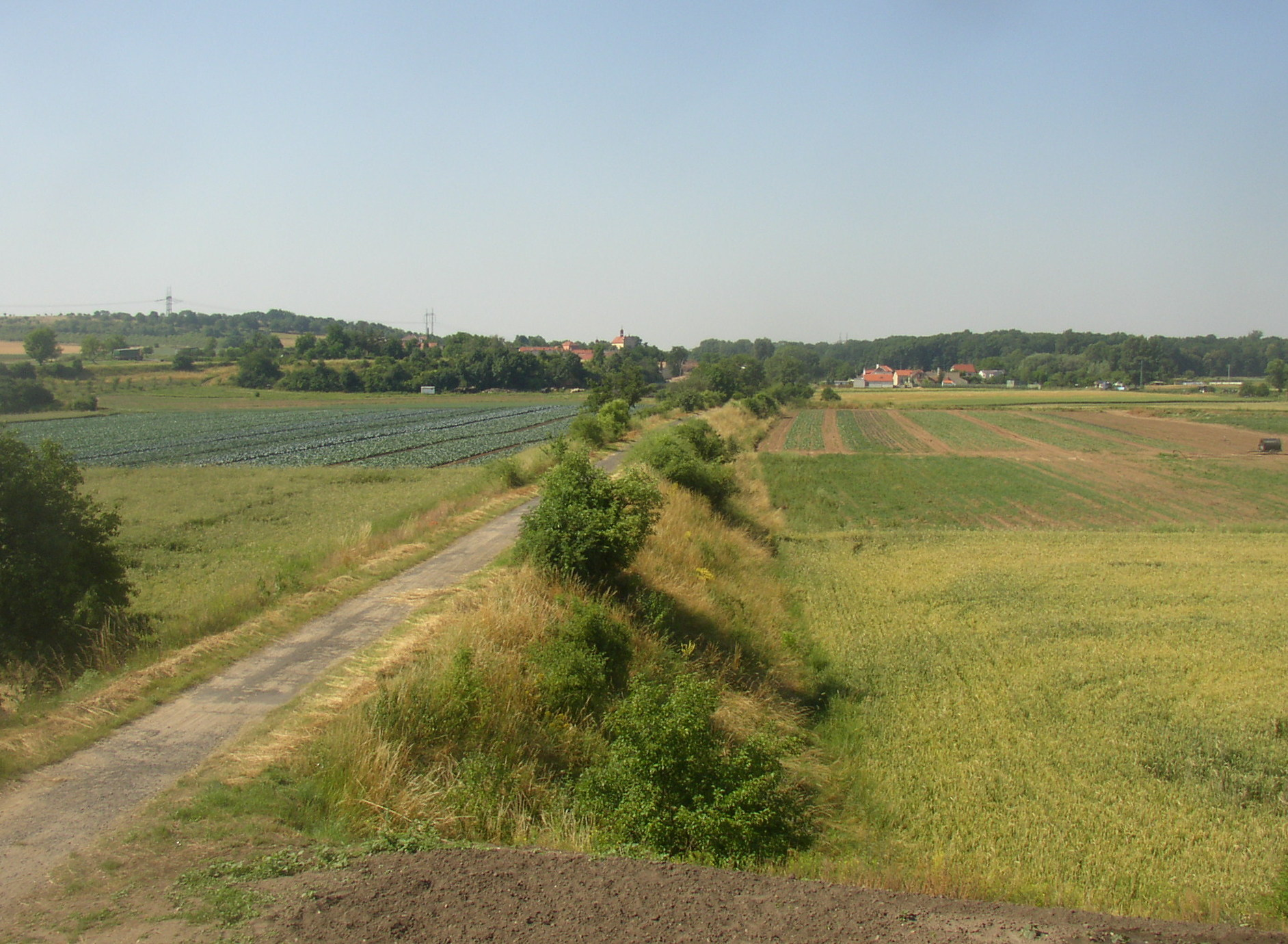 Dolánky nad Ohří, Litoměřice District. A general view of the village from north. In the foreground embankment of former siding from Hrdly station to Doksany sugar refinery, in the left background hill of Skála (209 m).